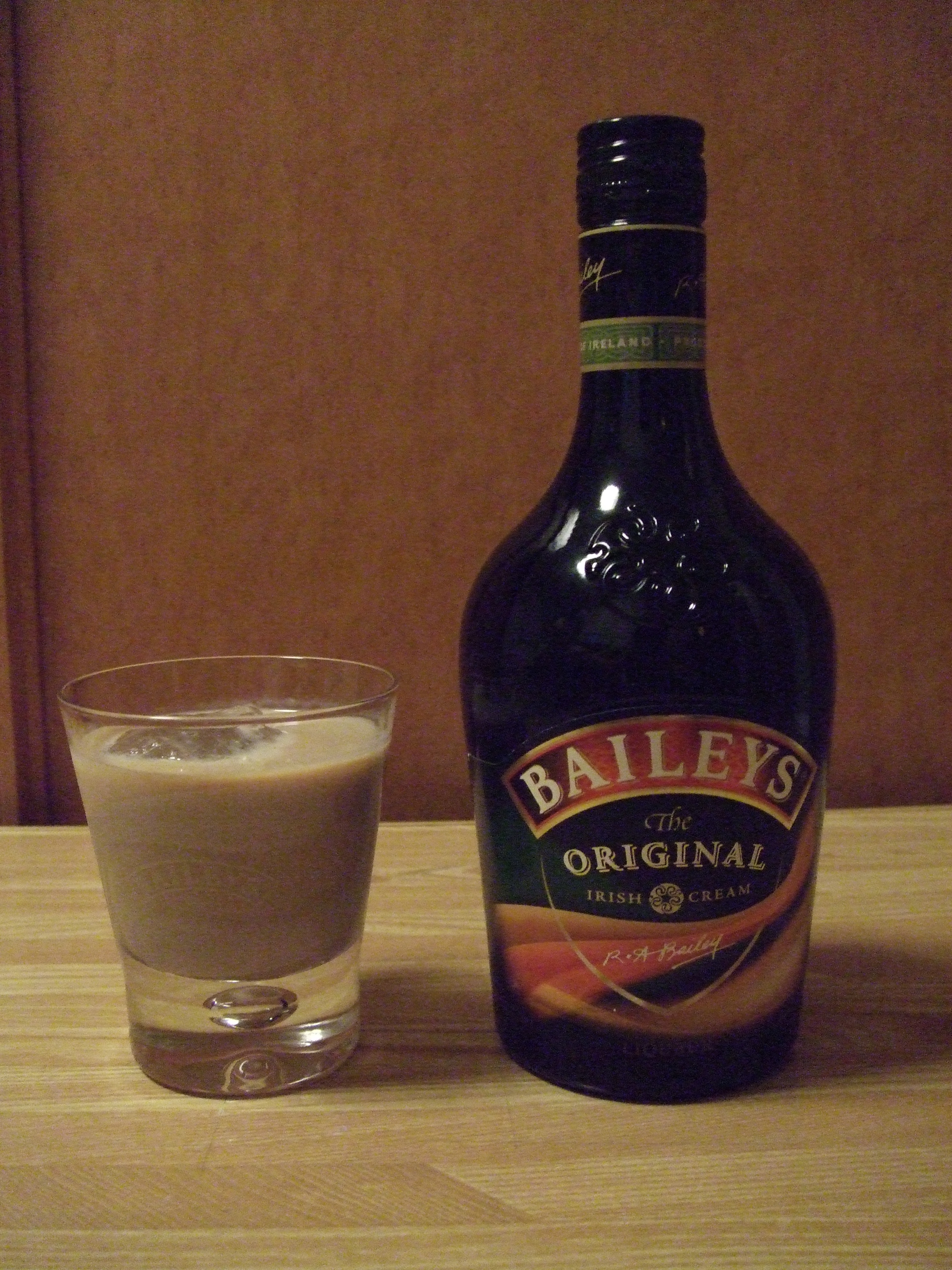 Baileys with Baileys Rock